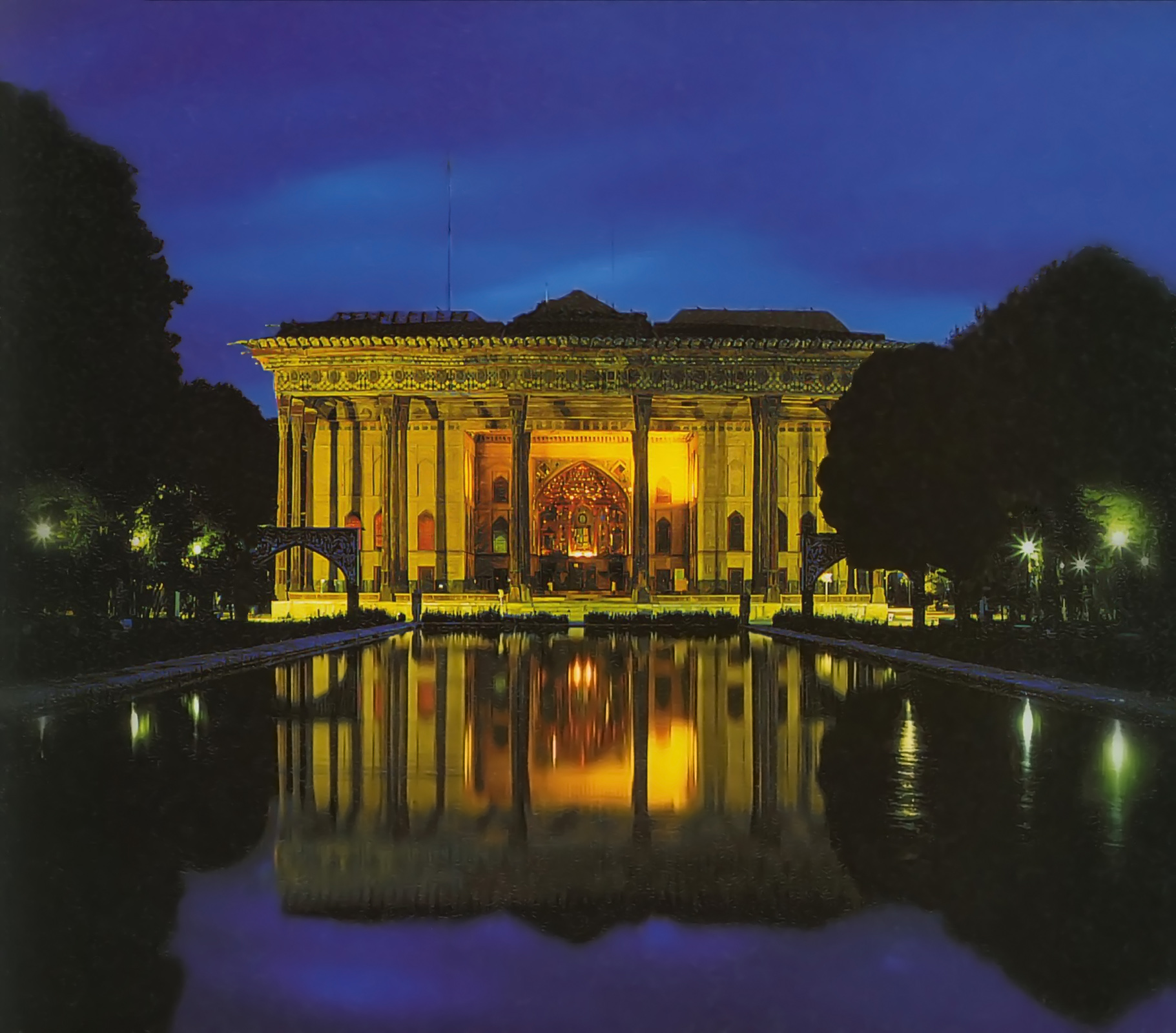 Chehel sotoon palace in Esfahan, Iran